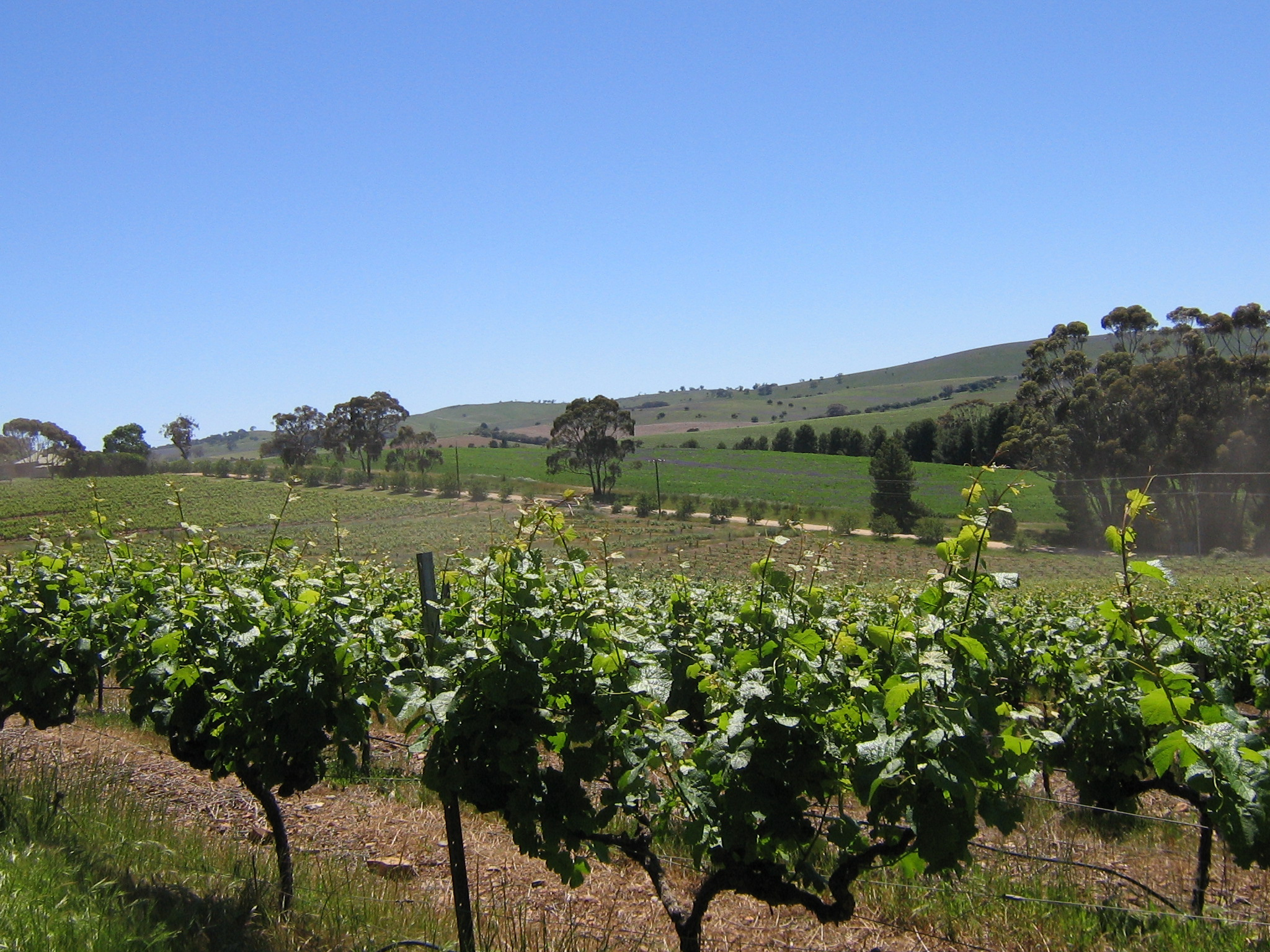 grape vines in the Clare Valley in South Australia